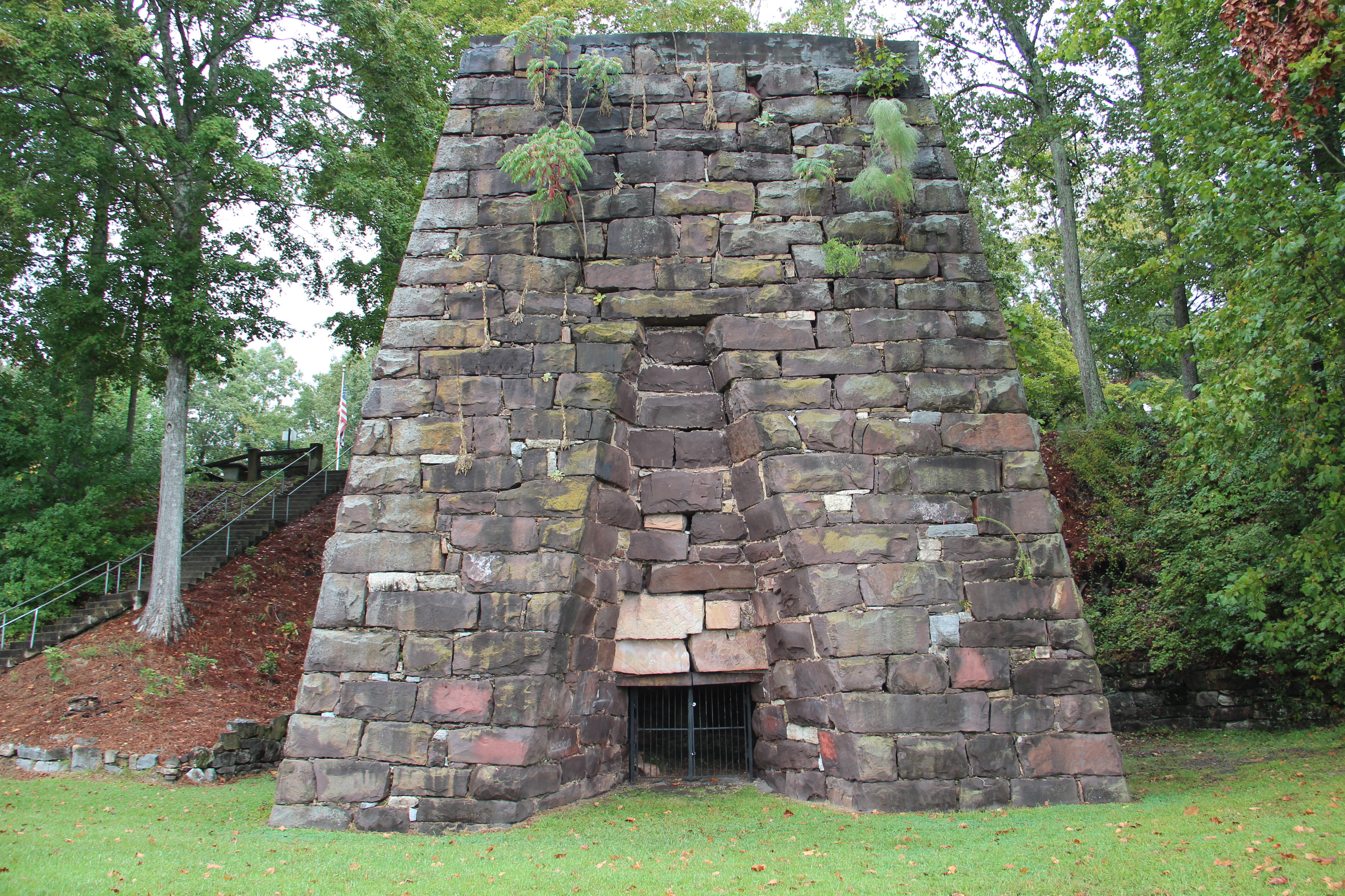 Cornwall Furnace near Cedar Bluff, Alabama